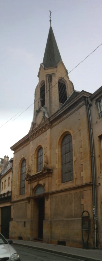 Lutheran church of Metz, in Moselle (France), in district Outre-Seille.